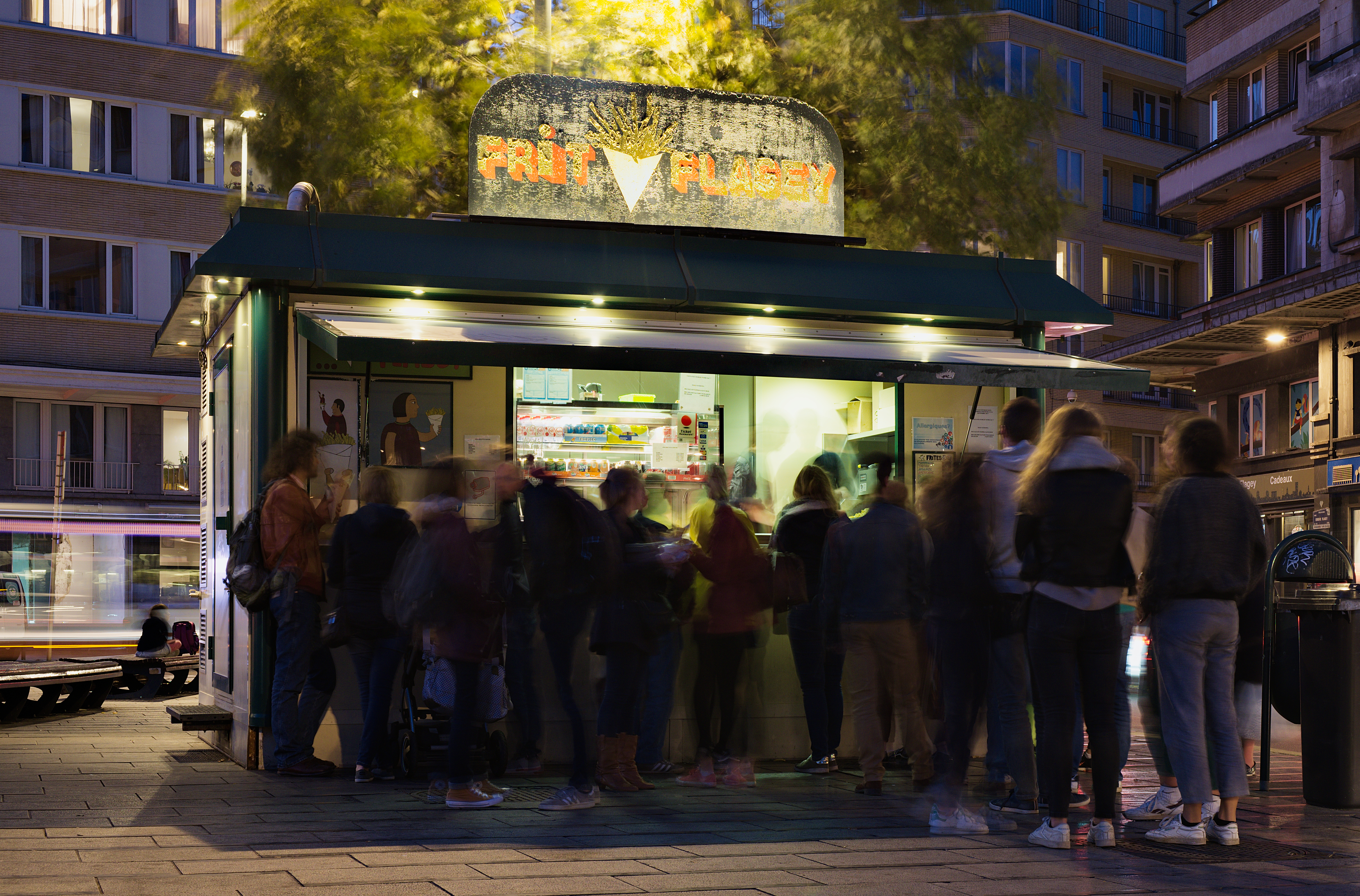 Frit Flagey in Brussels, Belgium This photo of immaterial heritage has been taken in the Brussels Capital Region